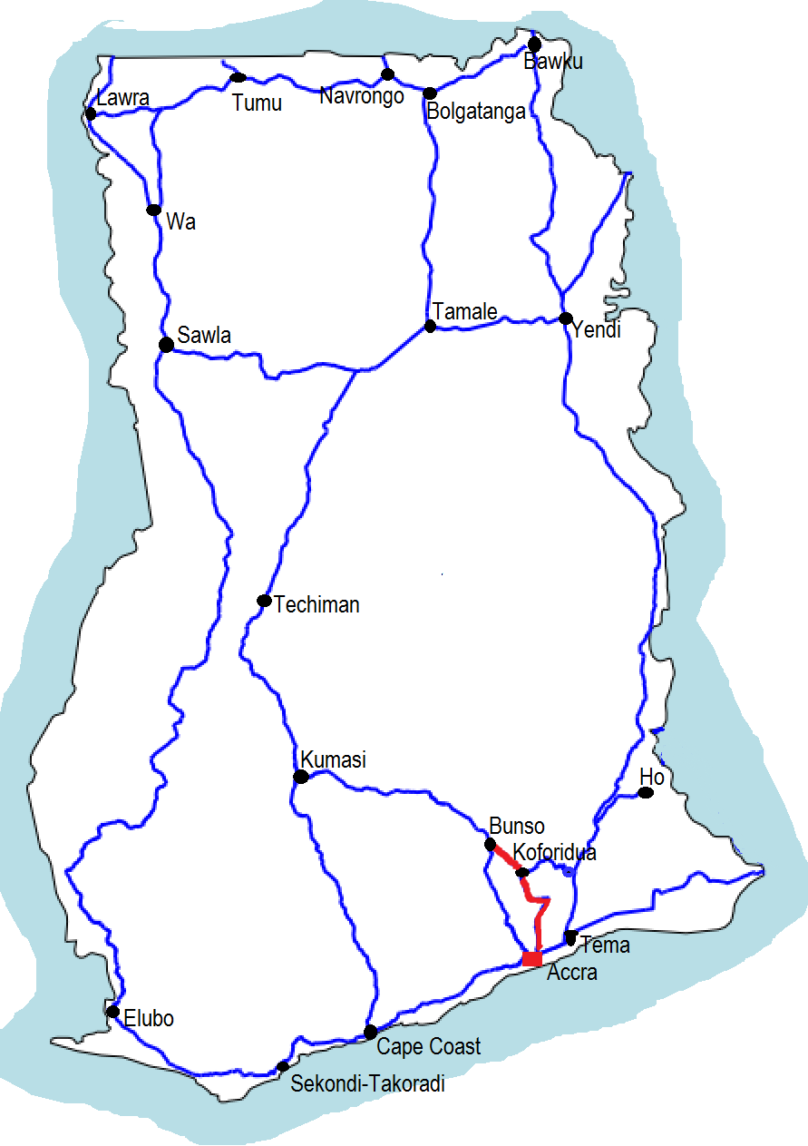 Ghana N4 highway route